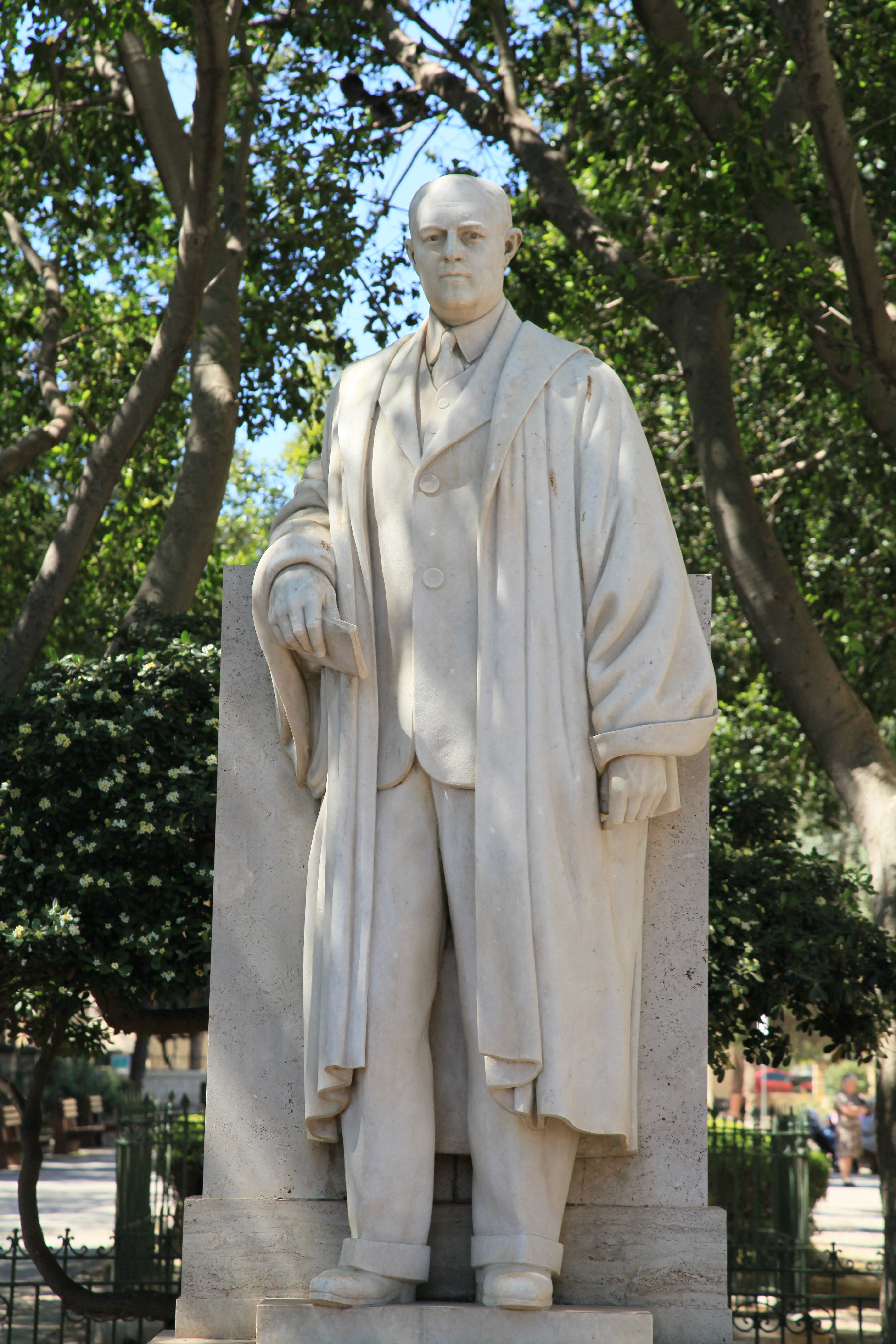 The Mall, Triq Sarria in Floriana, Malta